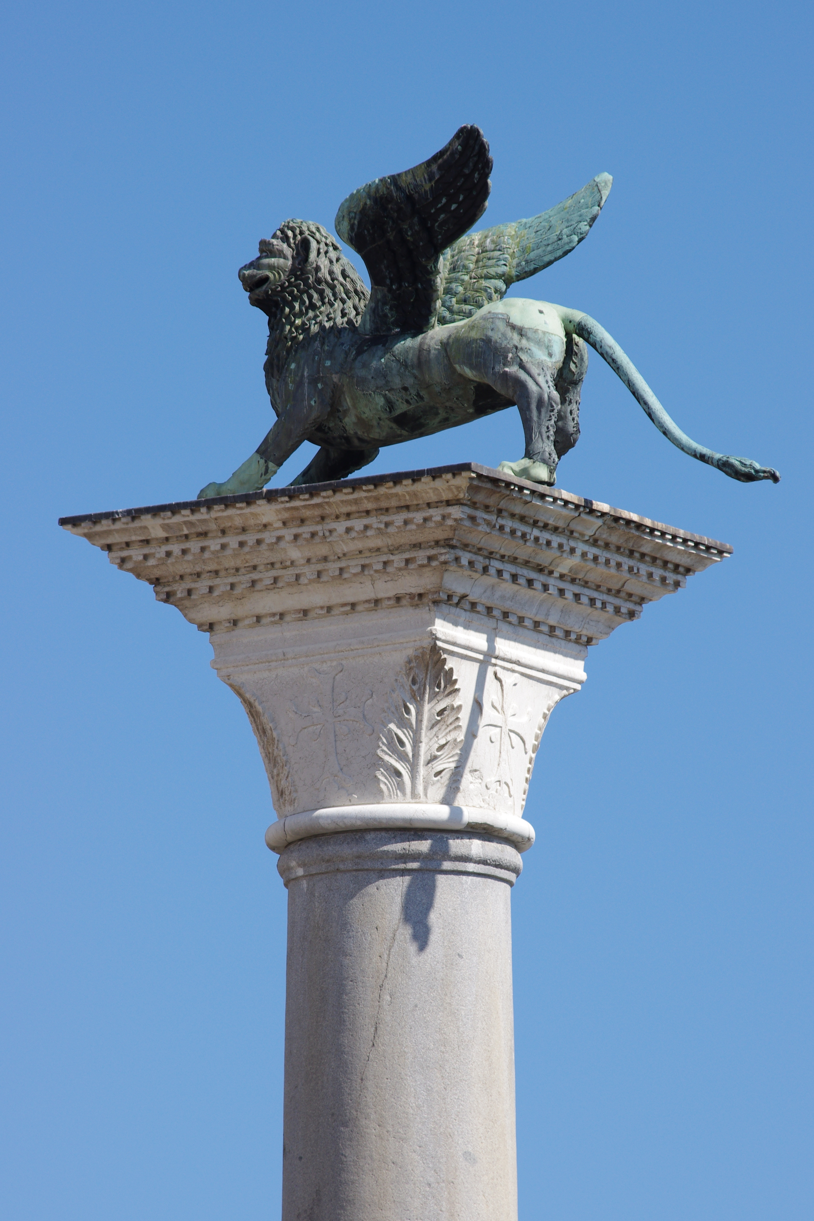 Column of the Lion in Piazzetta San Marco, Venice